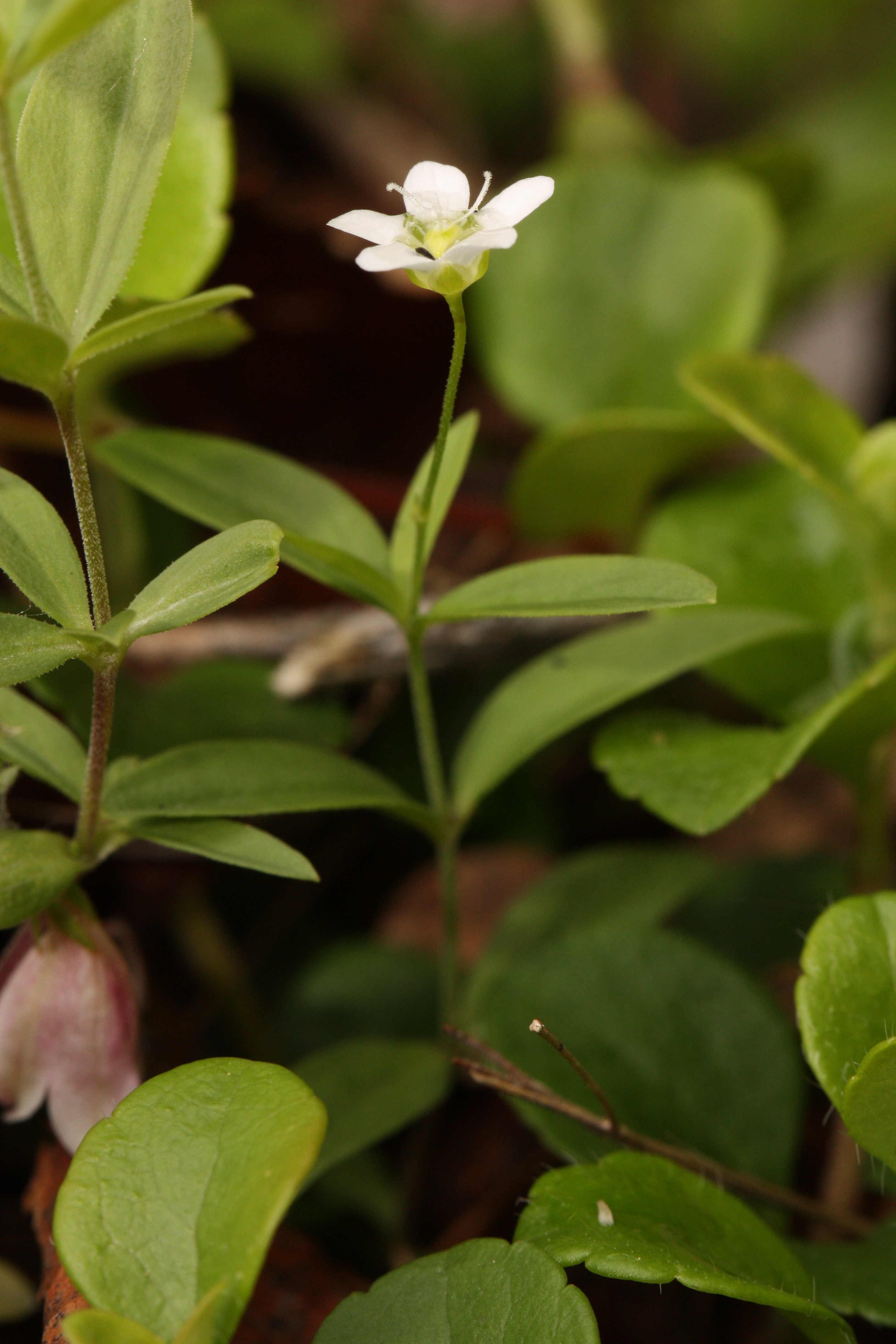 Blunt-leaf Sandwort